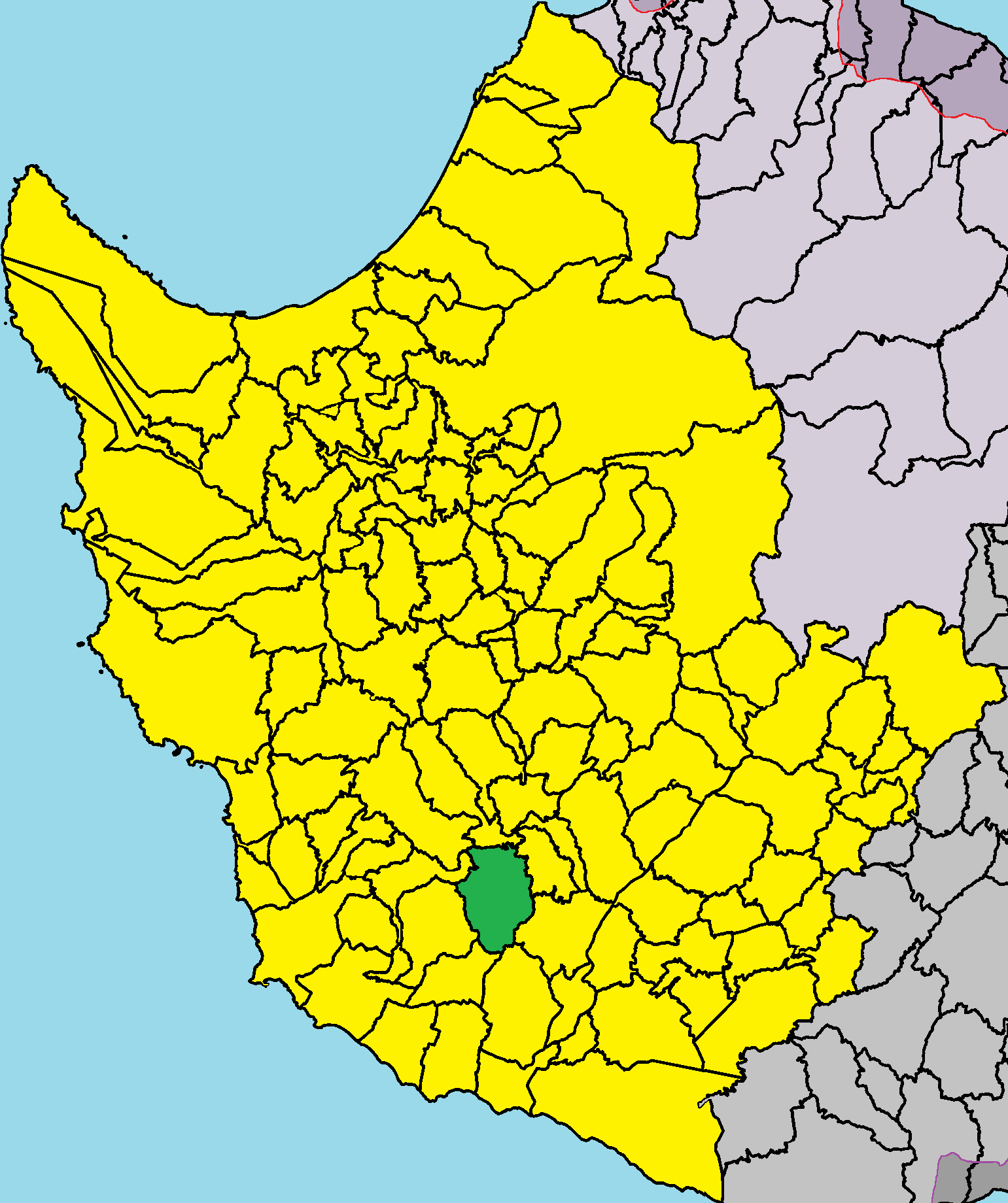 Episkopi in Paphos District.